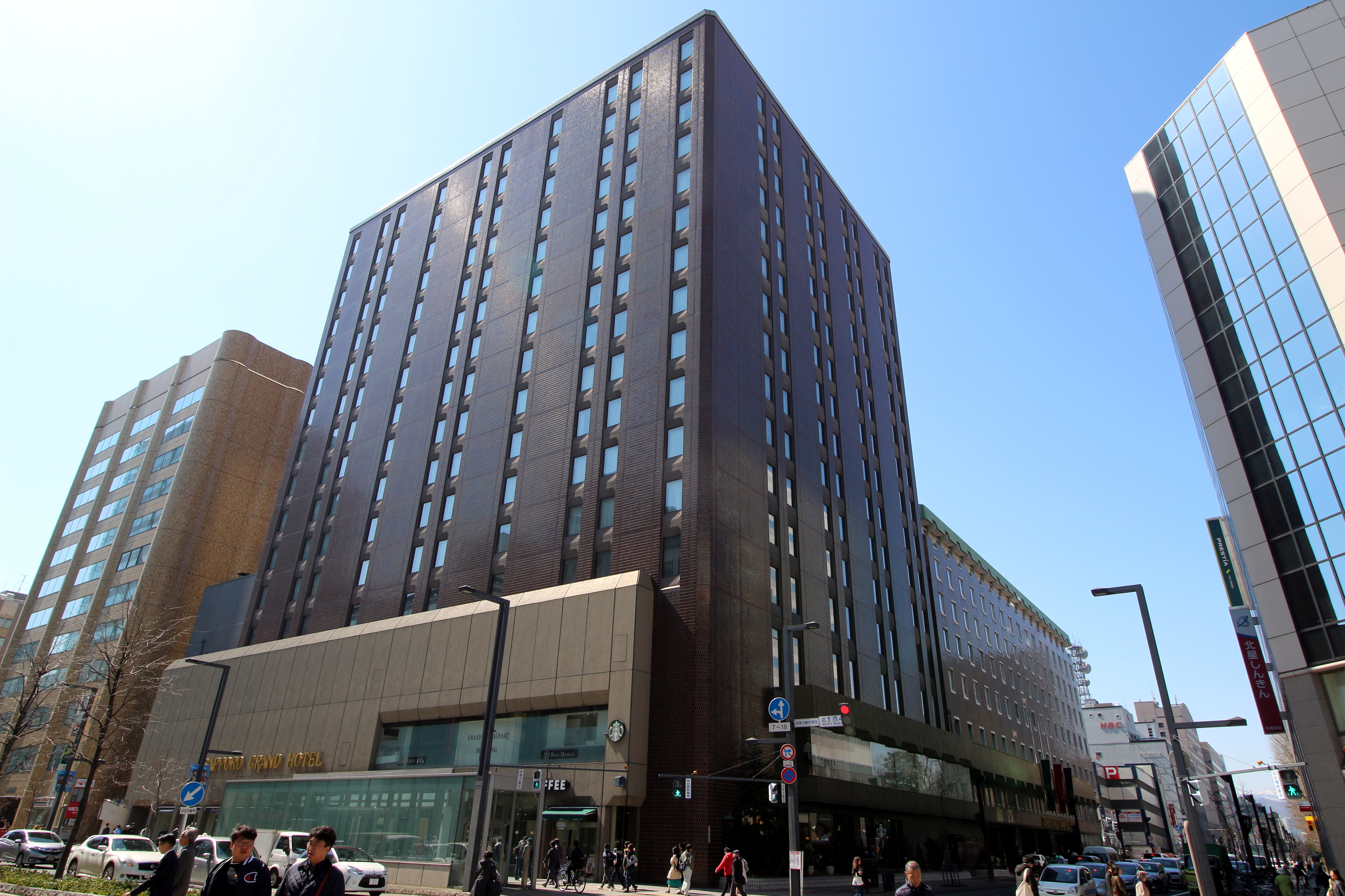 Exterior of the Sapporo Grand Hotel in Sapporo, Hokkaido.